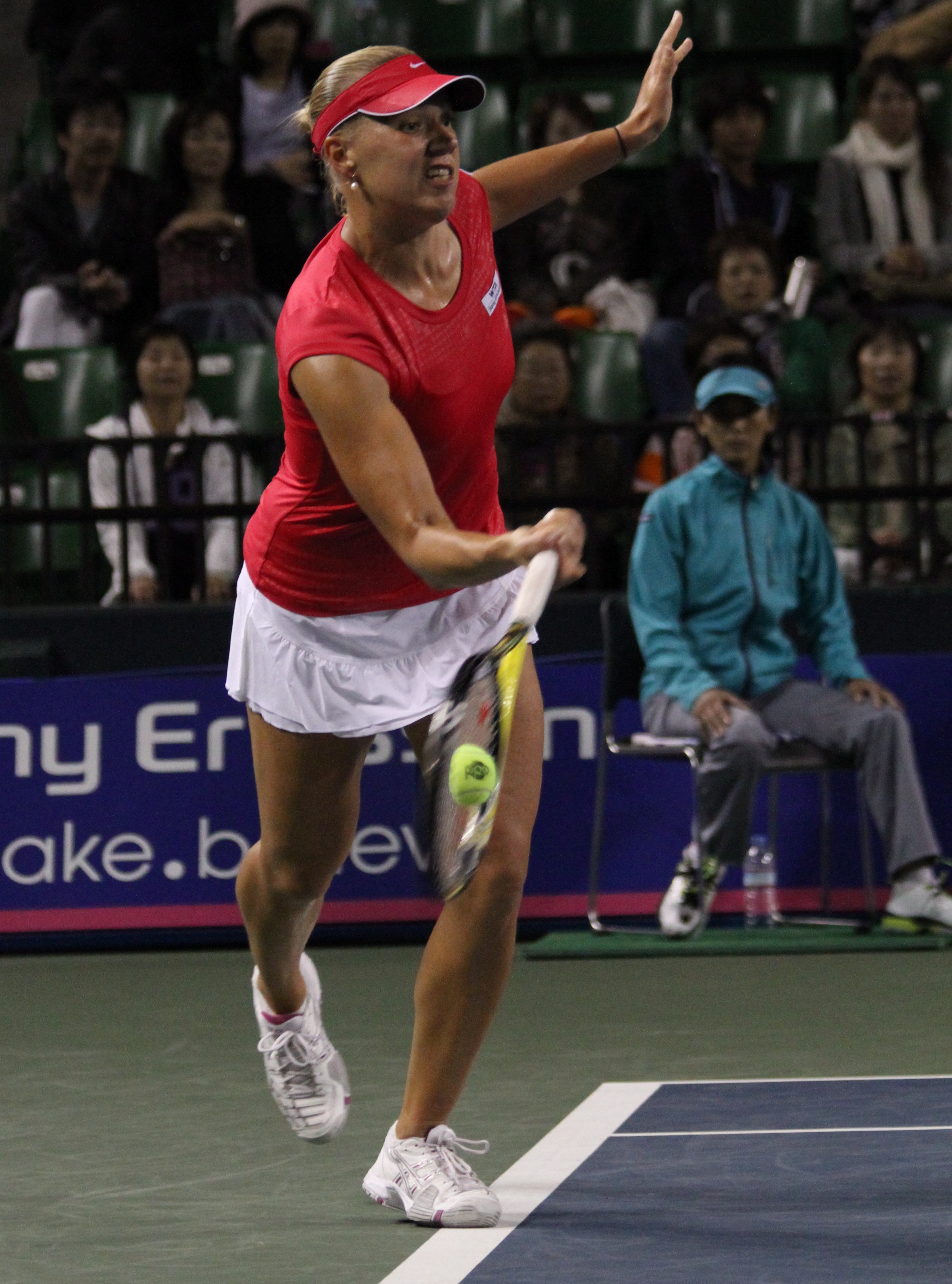 Kaia Kanepi at the 2011 Toray Pan Pacific Open Tennis Tournament.